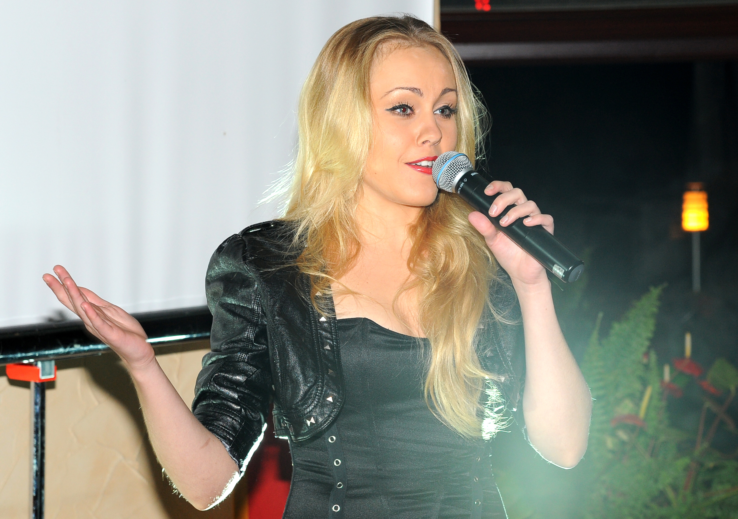 Alyosha